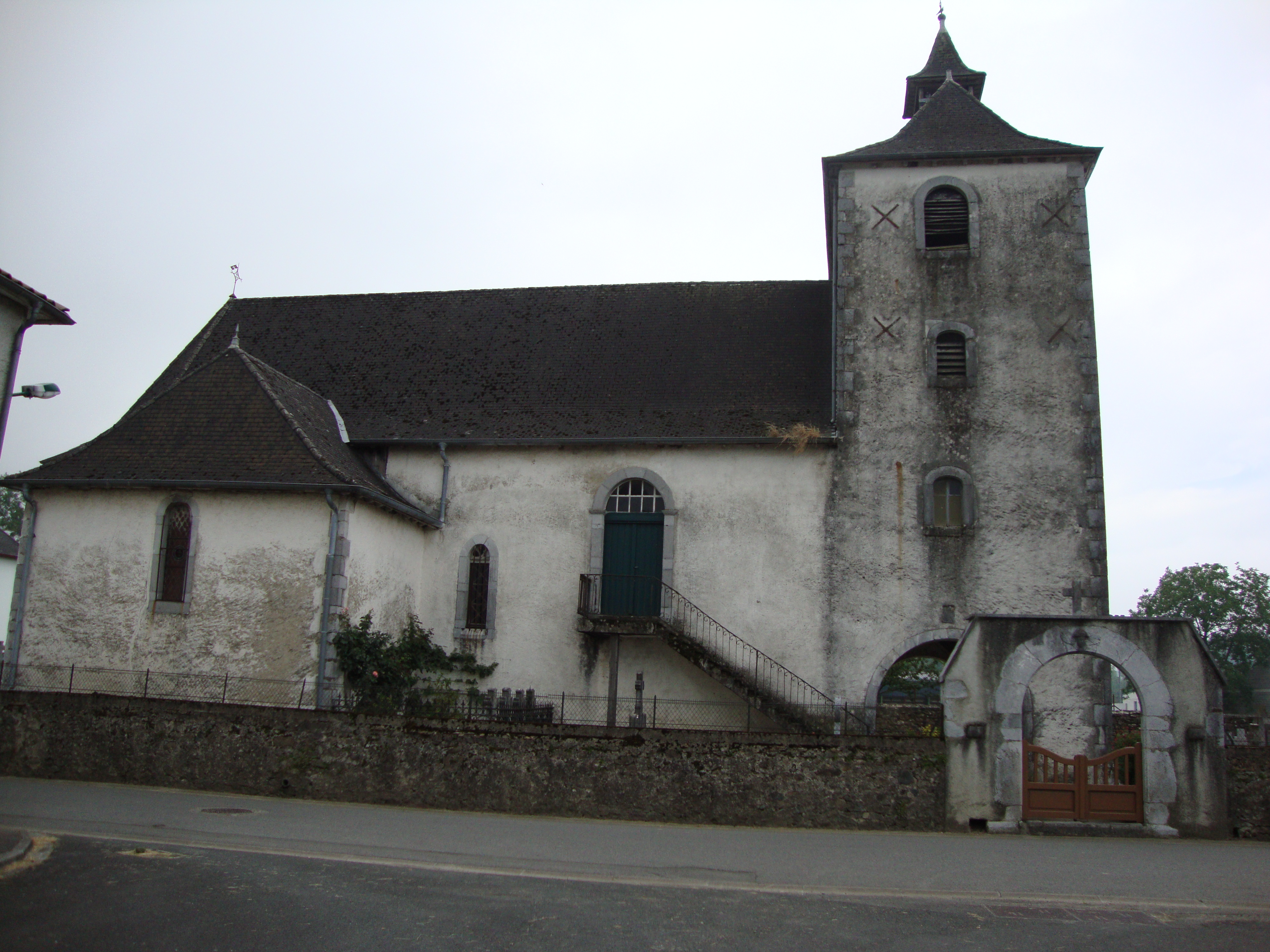 Menditte (Pyr-Atl, Fr) church with outside staircase.